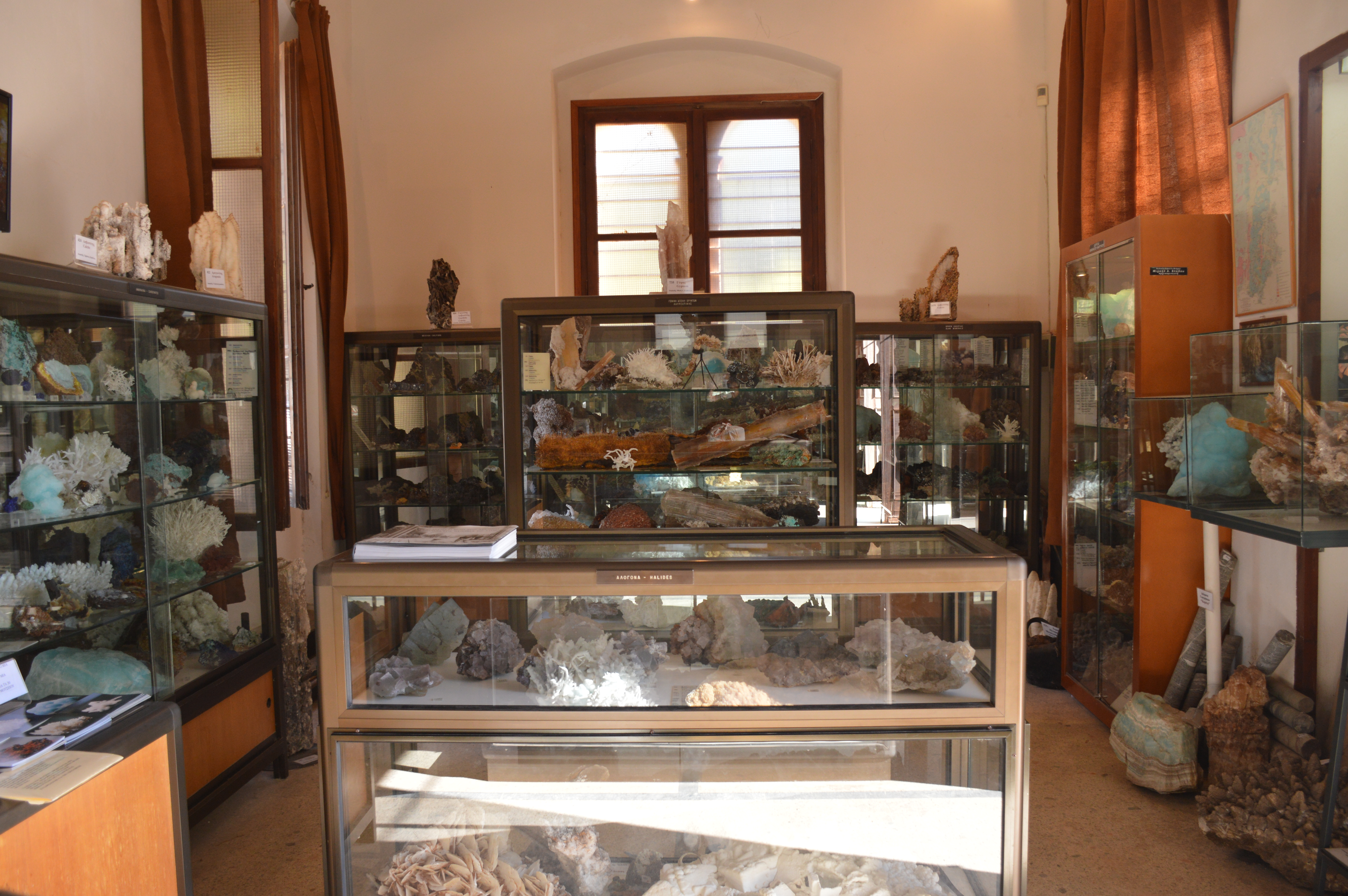 Mineralogical Museum of Lavrion, established in 1984 by the Society of Lavreotiki Studies .